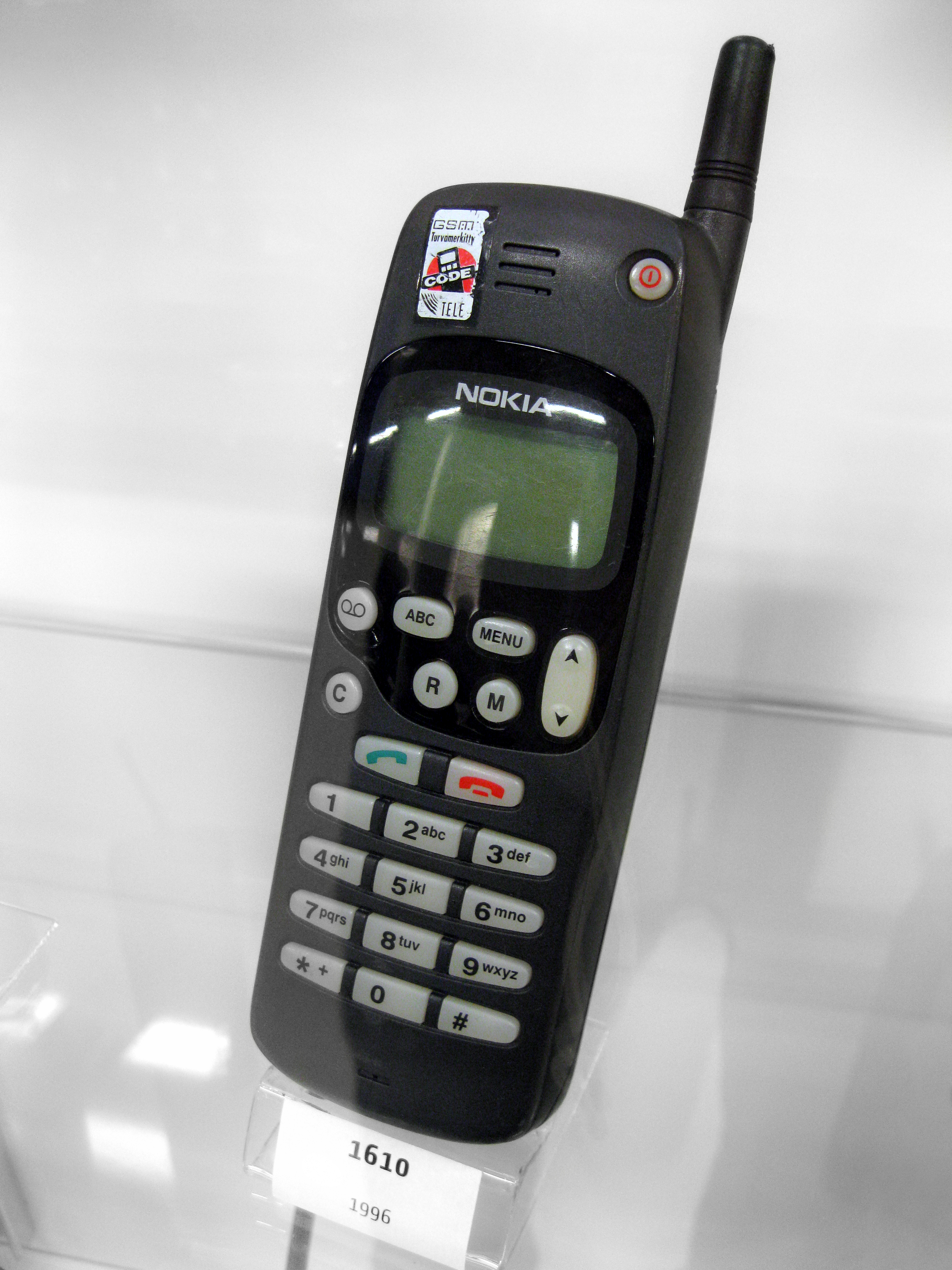 Nokia 1610 mobile phone.